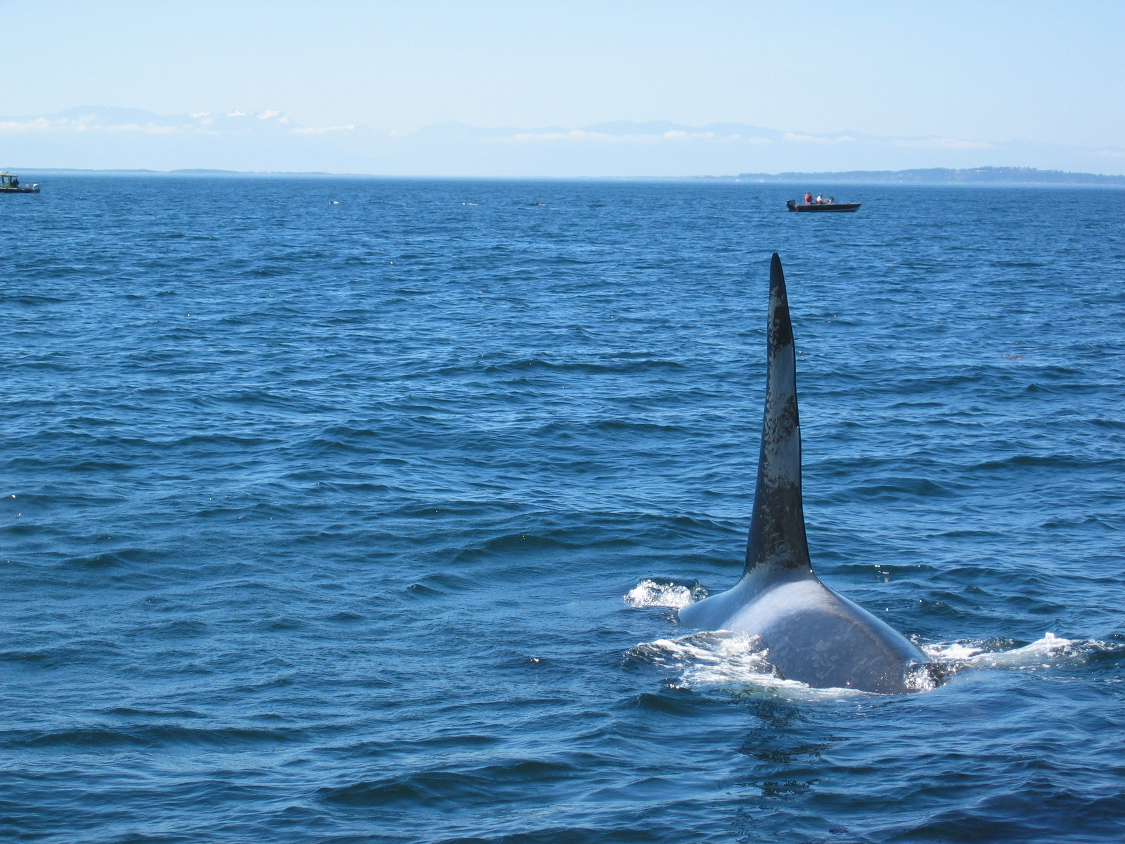 Bull killer whale approaching a whale watching boat in the Strait of Juan de Fuca near Victoria BC in the summer of 2004